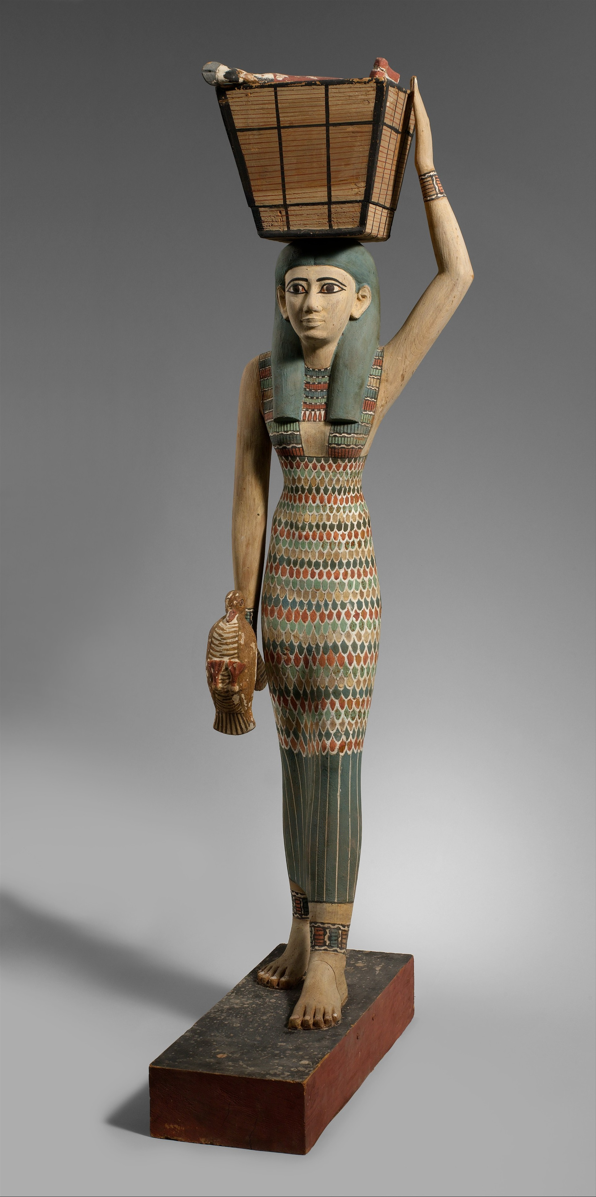 Statue, standing woman, offering